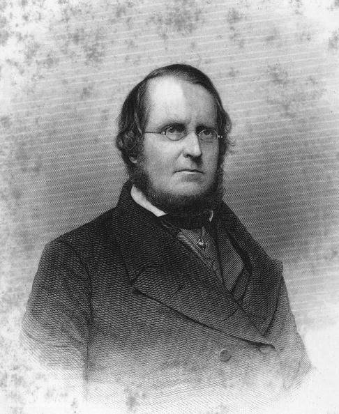 Engraved portrait of American politician Jacob Broom (1808 - 1864)